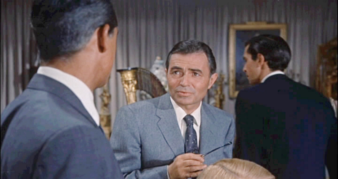 Cropped screenshot of Cary Grant, James Mason and Martin Landau from the trailer for the film North by Northwest